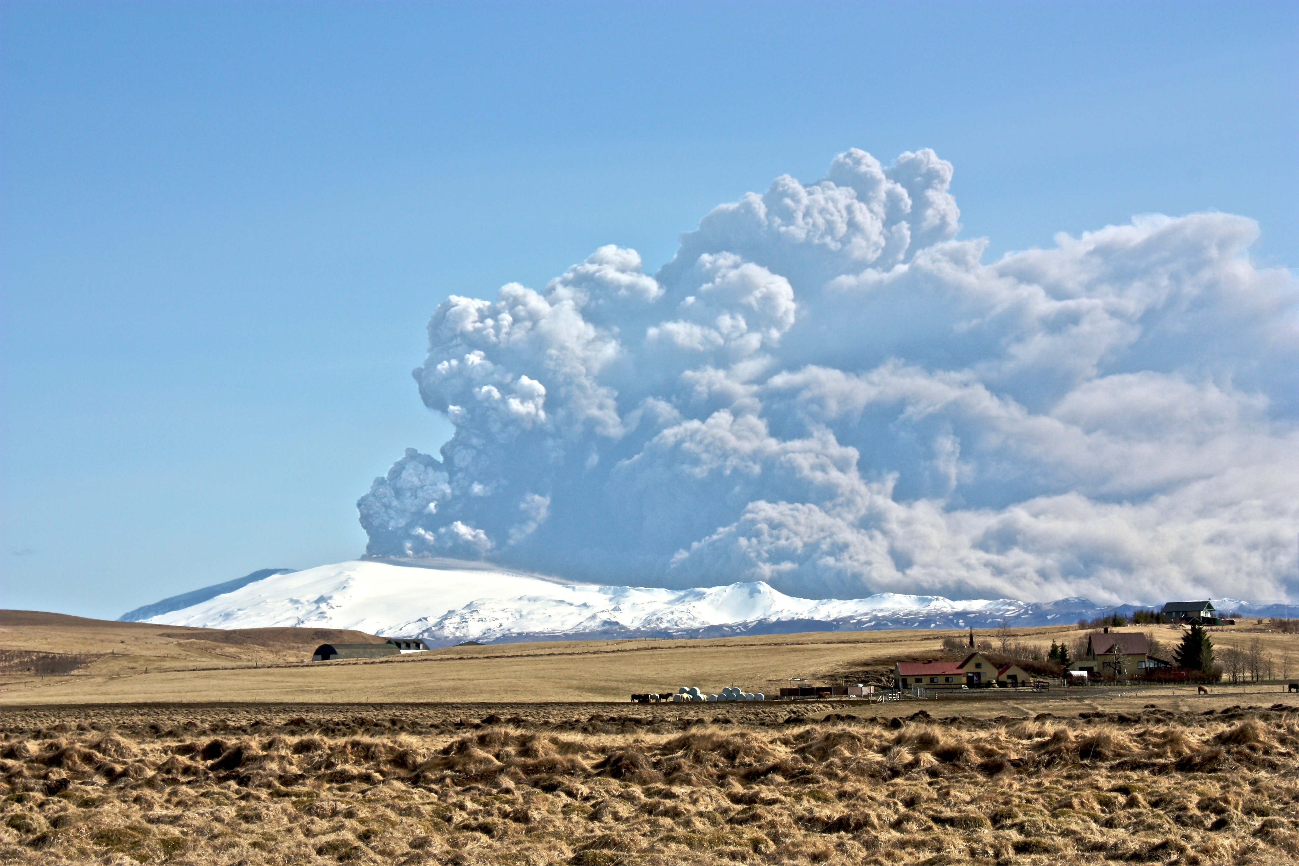 The 2010 eruption at Eyjafjallajökull in Southern Iceland.